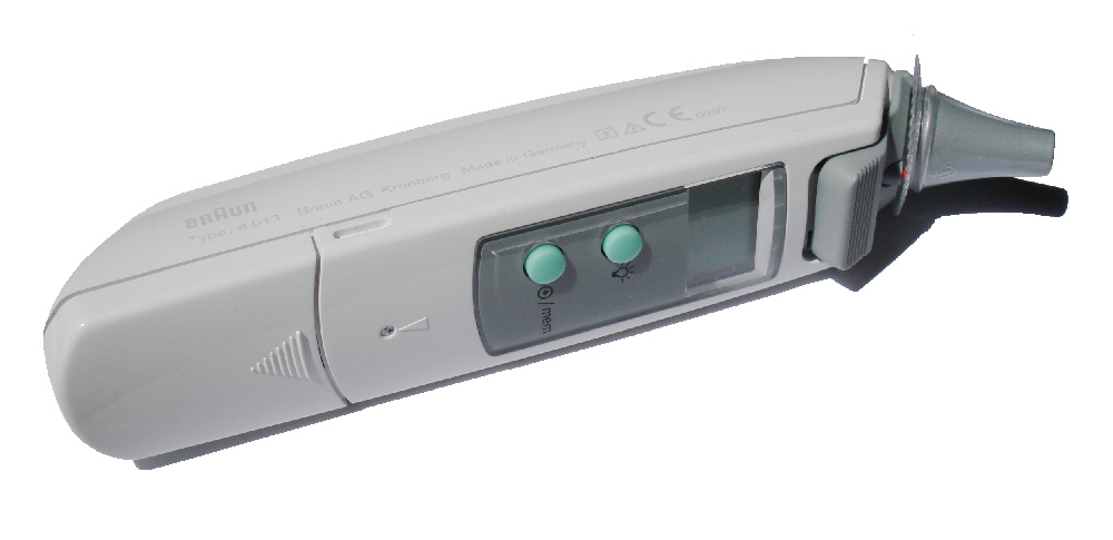 Digital fever thermometer